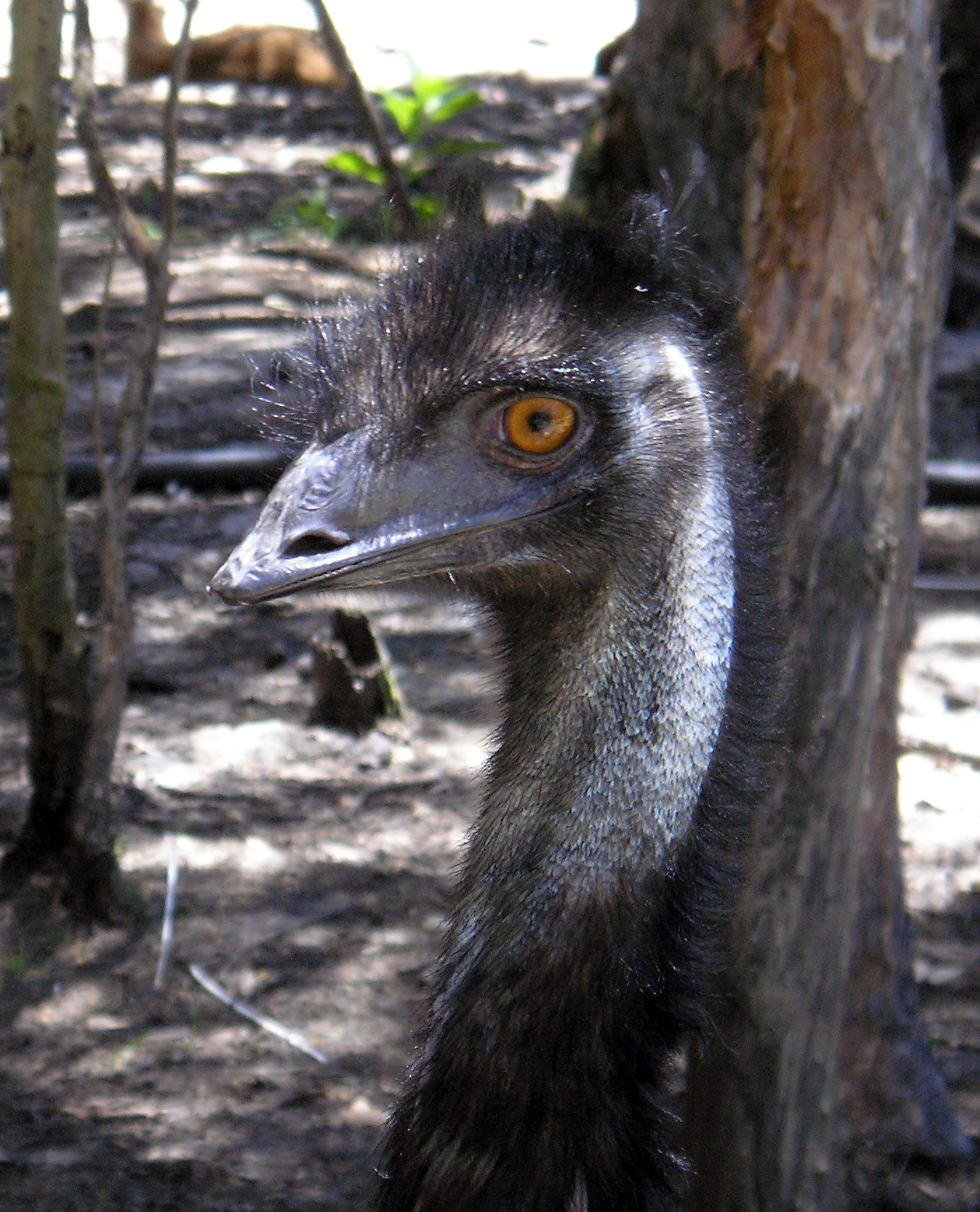 Emu (Dromaius novaehollandiae). Whiteman Park, Western Australia.